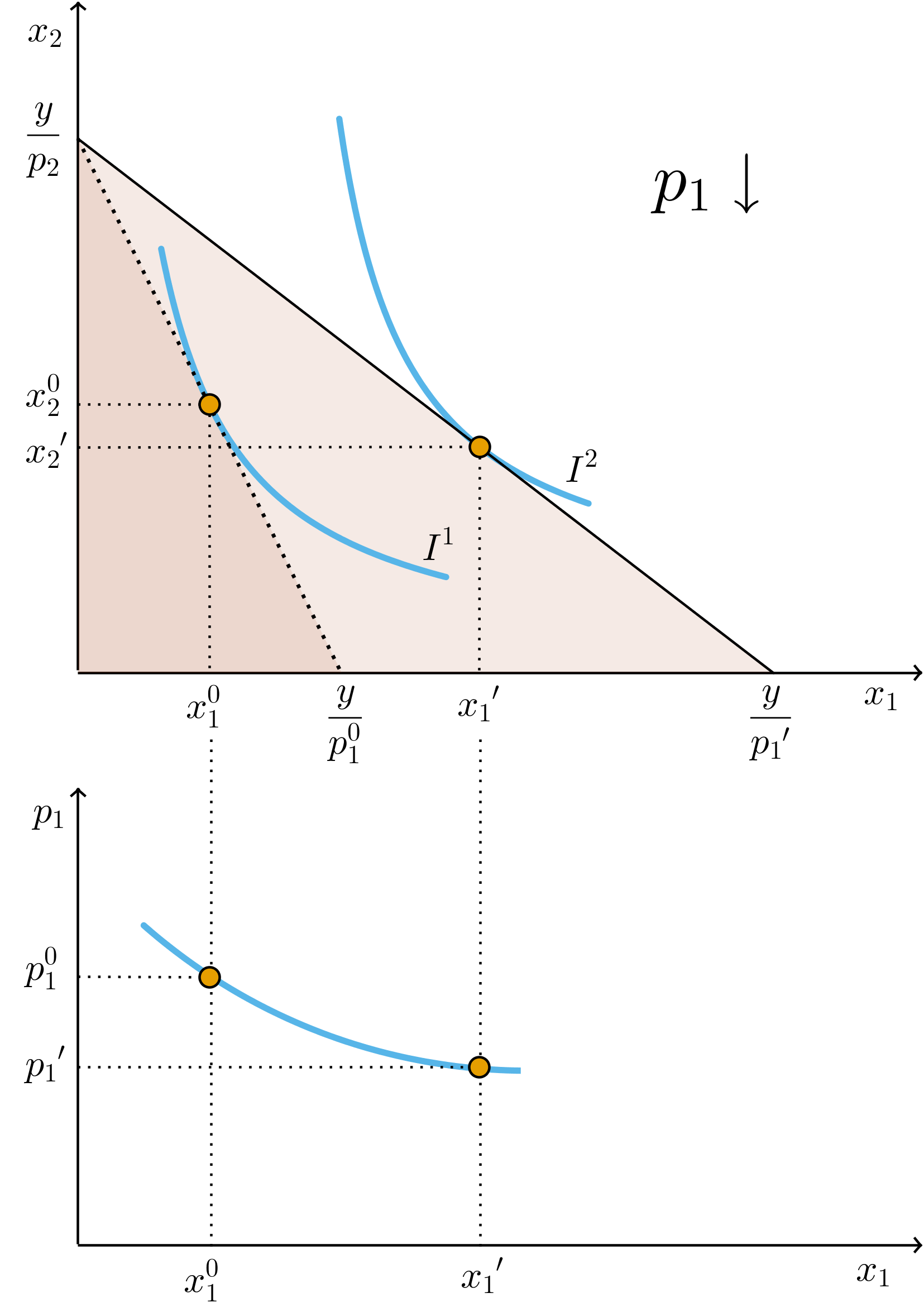 Marshallian demand function, construction part III